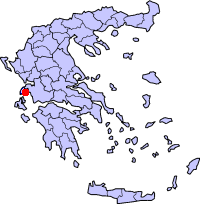 Based on Image:GreeceLevkas.png. It shows the location of the Skorpios private island.